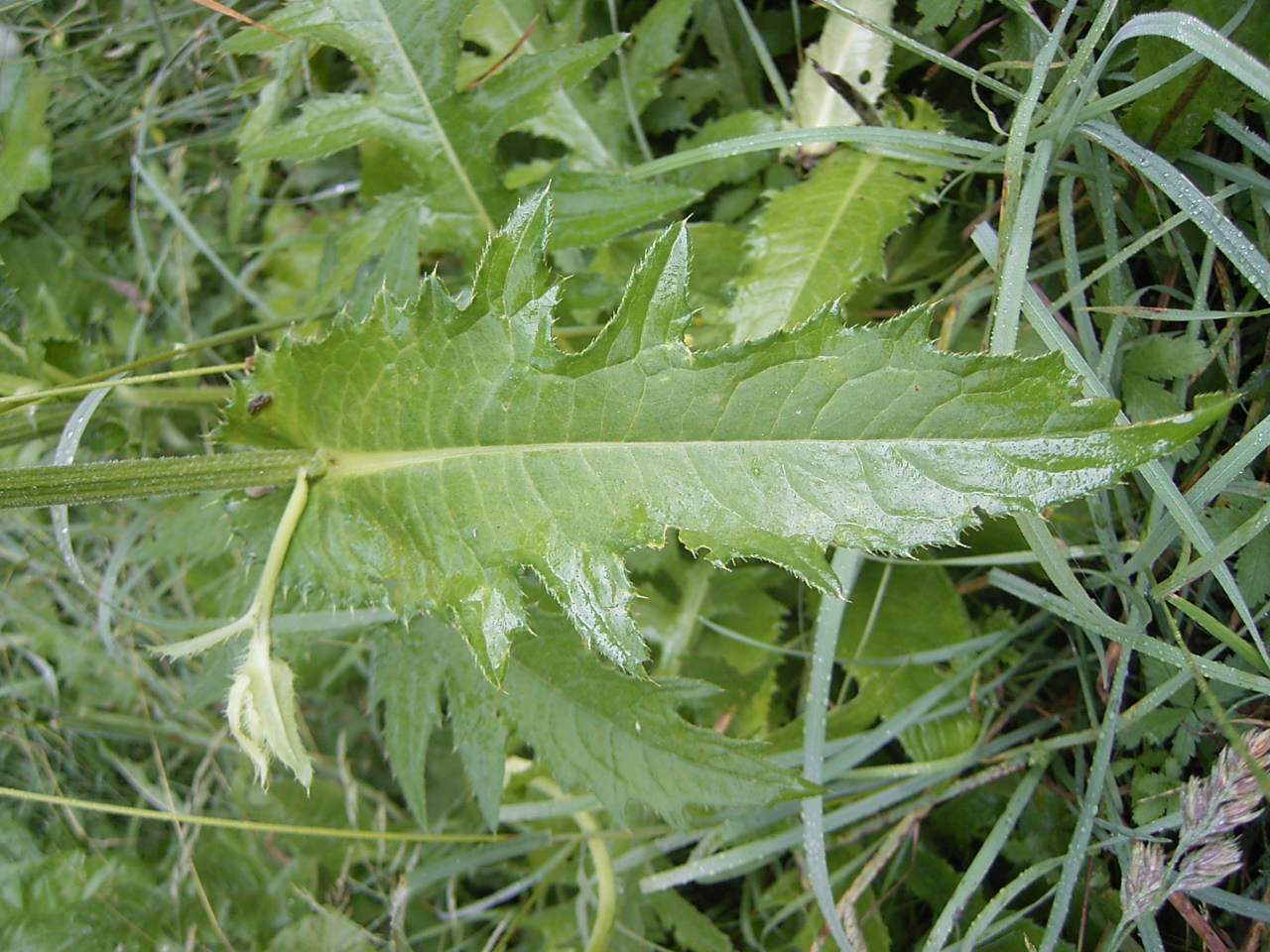 Deze foto toont een blad van de moesdistel. Ik nam de foto op 13 juli 2005 bij Mittenwald, Duitsland. This photo shows a leaf of Cirsium oleraceum. I took this pic on July 13, 2005 near Mittenwald, Germany.